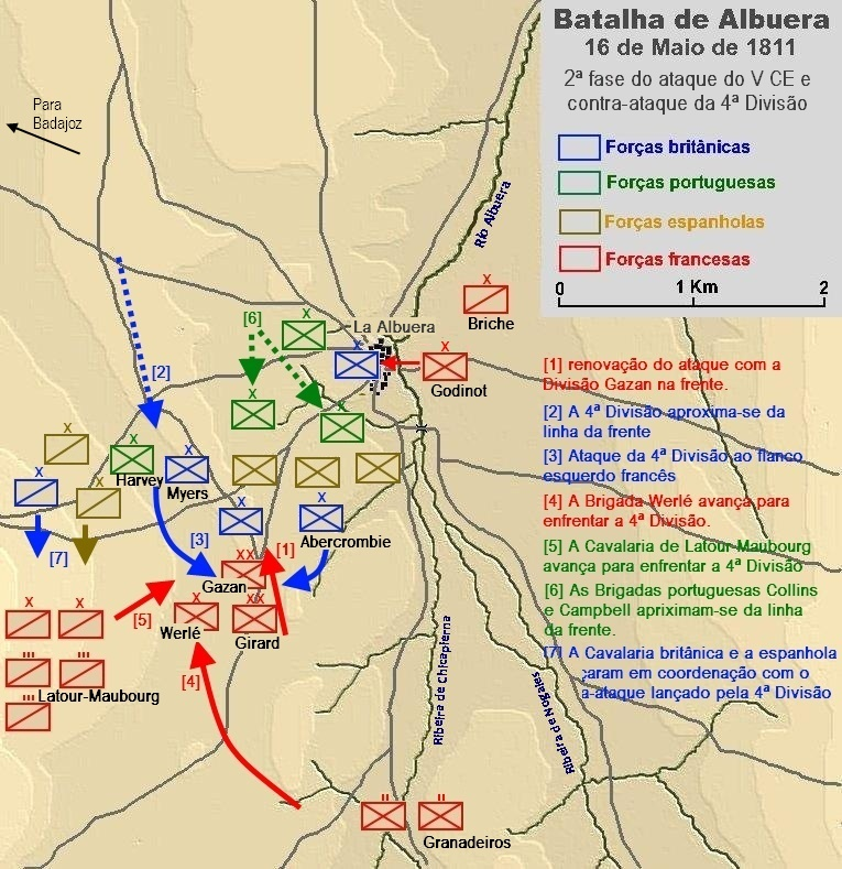 Map of the Battle of Albuera (May 16, 1811) - 2nd Phase V CE's attack and counter attack of the 4th Division